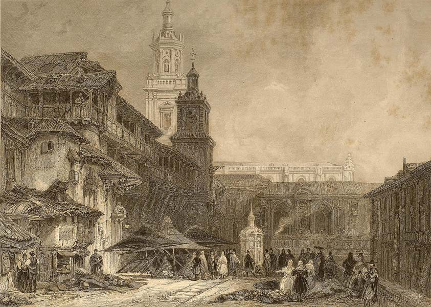 In the book by Thomas Roscoe, with engravings by David Roberts, "The Tourist in Spain: Biscay and the Castiles", published in 1837 by Lloyd, R., it can see the Plaza de la Virgen Blanca in 1833, Vitoria-Gasteiz, Spain.